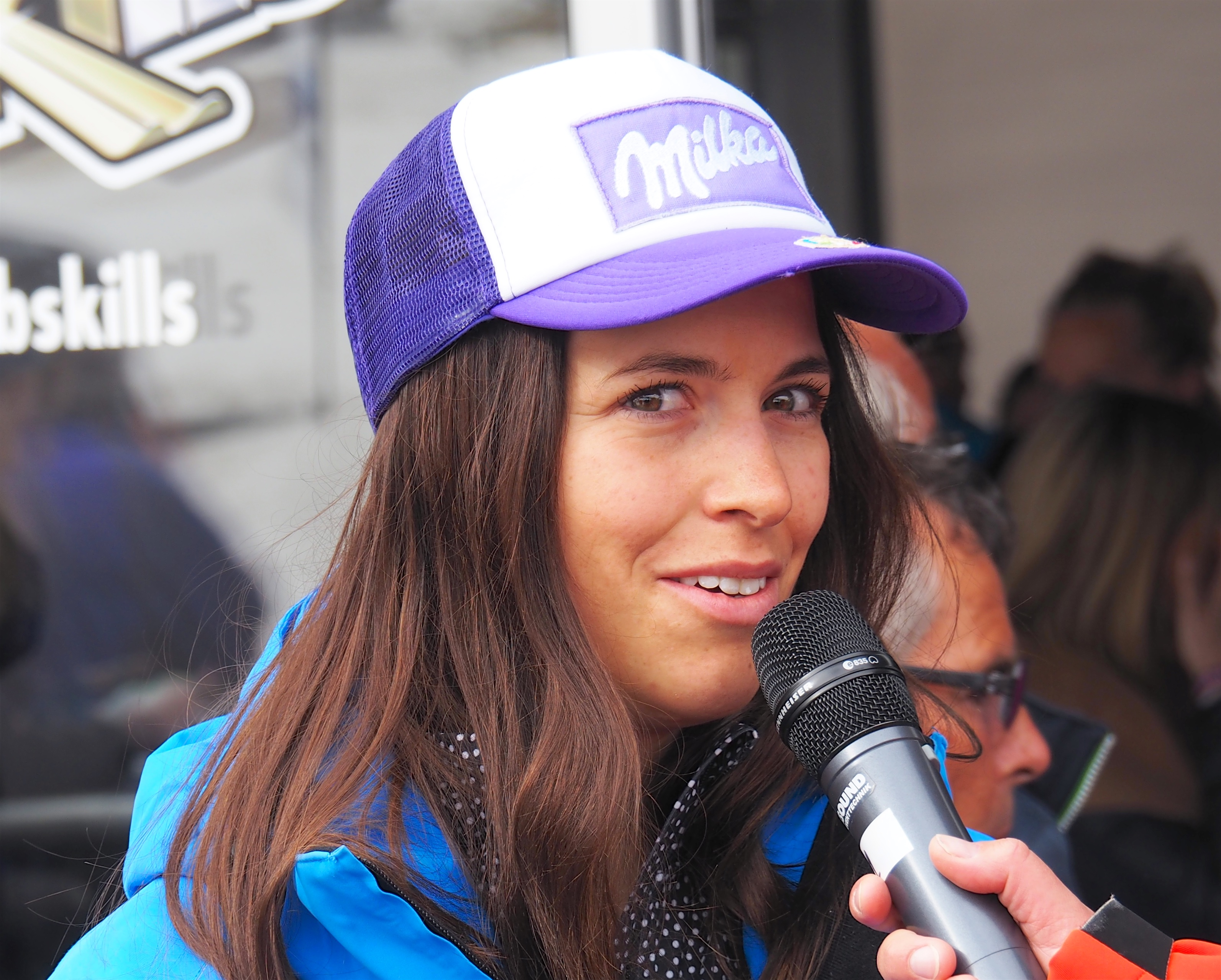 Alpine skier Elena Curtoni from Italy